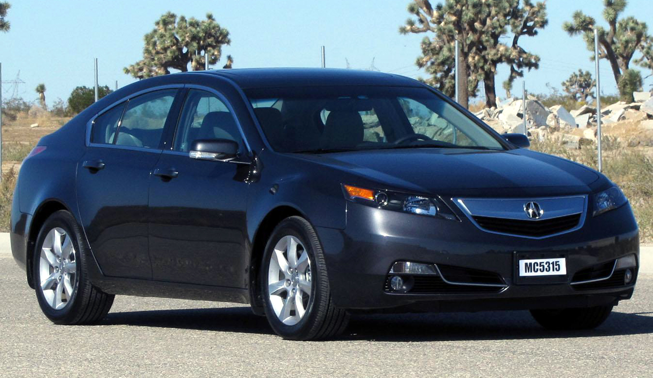 2012 Acura TL photographed in USA.